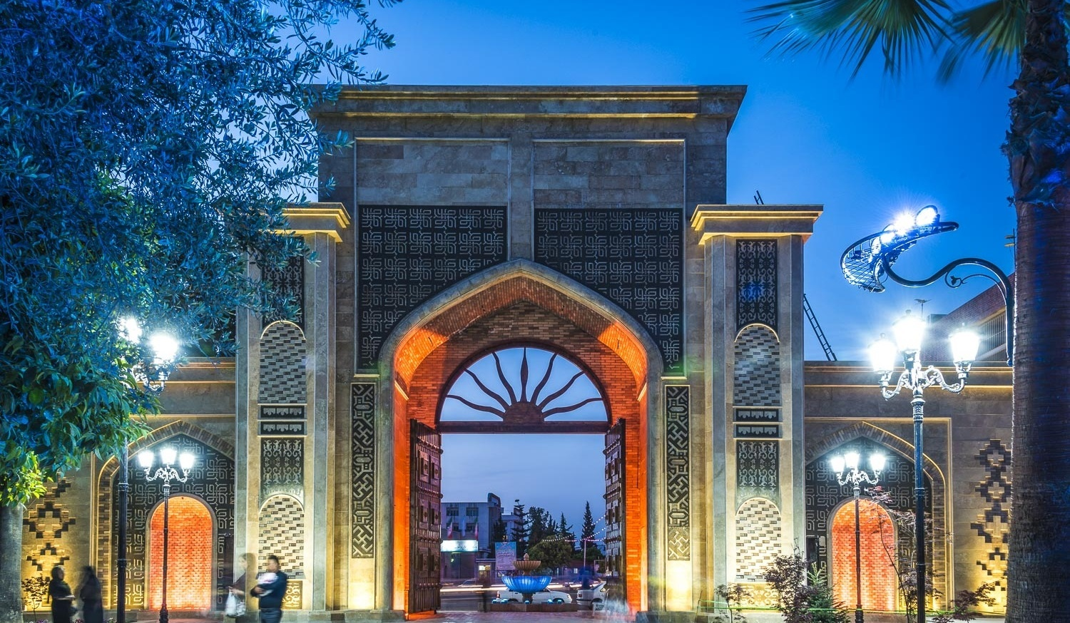 Velayat Park (Bustan) at the Night